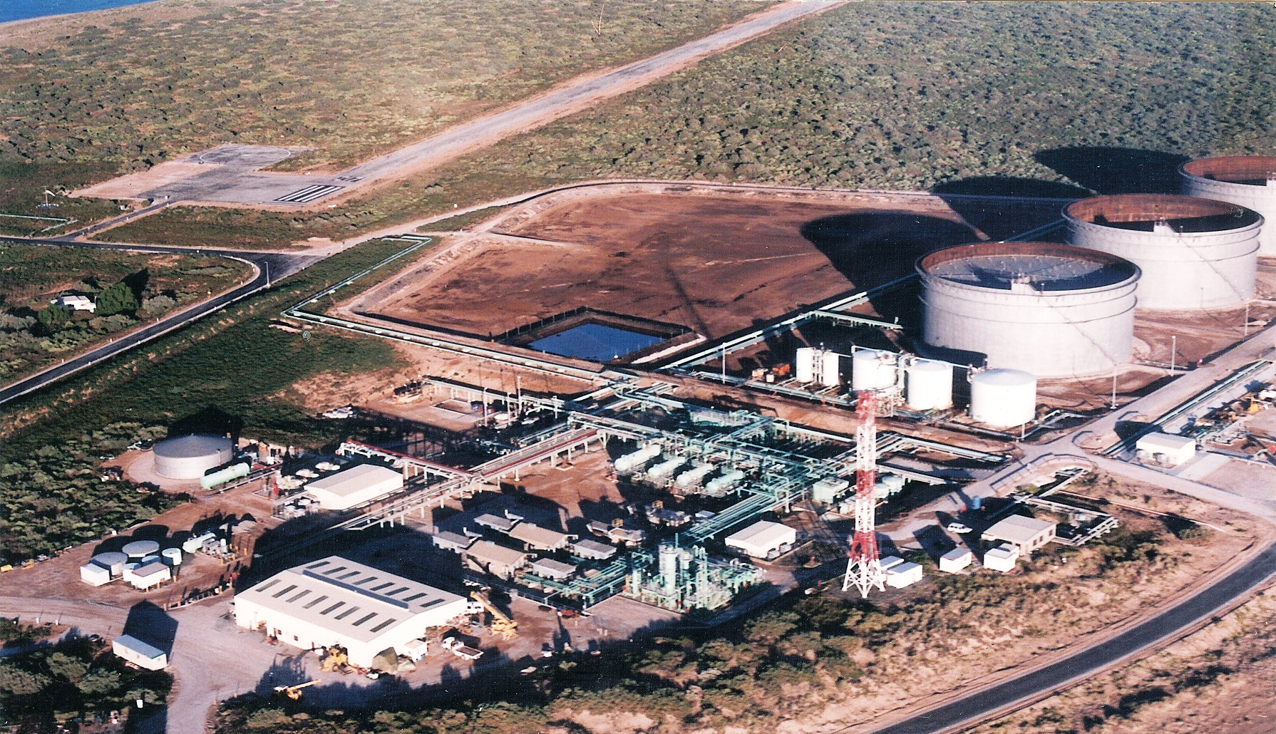 Chevron's Petroleum production facilities on Thevenard Island, Western Australia. Aerial view (from helicopter) - approx 400m height. Shows separation plant, oil storage tanks, gas treatment plant, export compression facilities, workshop area, water treatment plant. Part of airstrip also visible.